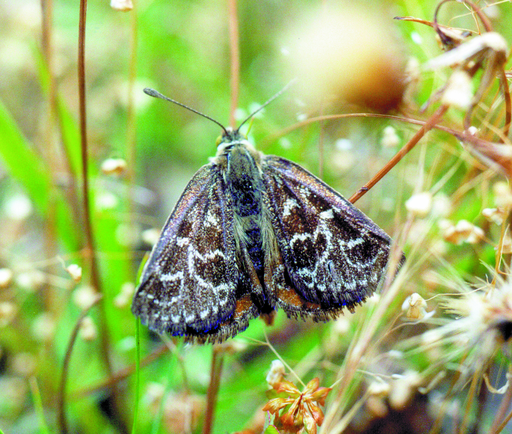 Synemon plana (male) Photo credit: Geoff Clarke CSIRO